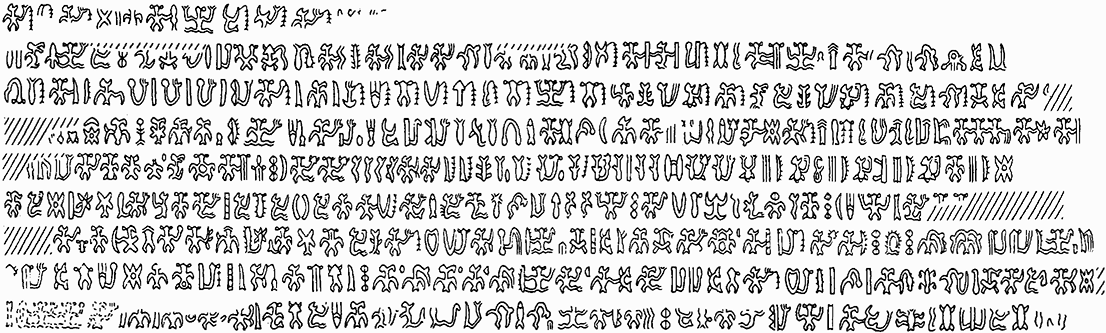 Barthel's tracing of rongorongo tablet Q, retro